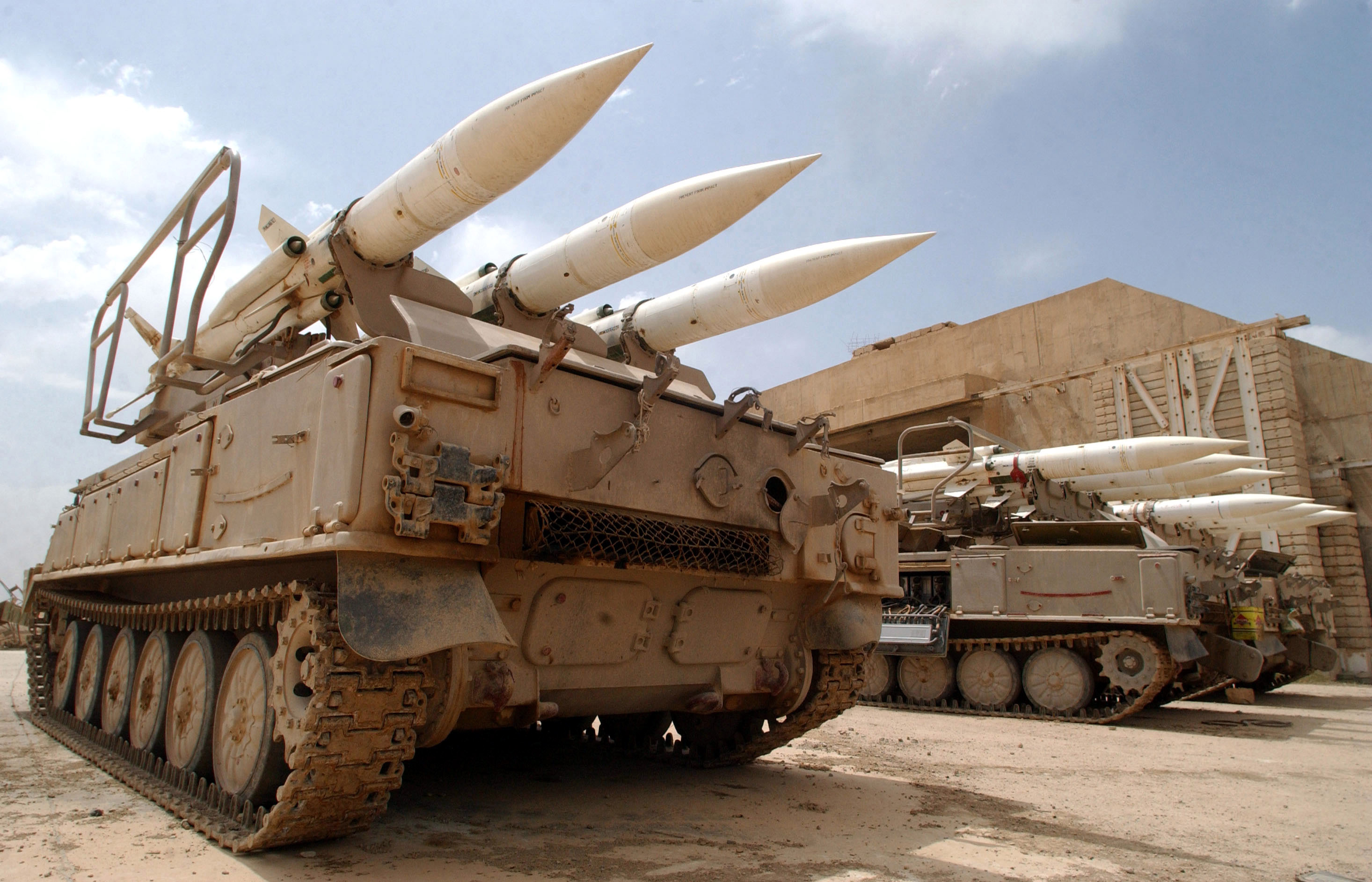 Three batteries of (Soviet made) Iraqi 2K12 Kvadrat (SA-6B Gainful), solid-fuel, low-altitude Surface-to-Air Missiles (SAM), mounted on SPU medium-track transporters, sit outside a munitions storage area at Baghdad International Airport, in Iraq, during Operation IRAQI FREEDOM. US Air Force (USAF), Explosive Ordinance Disposal (EOD) Units, schedules the weapon systems for disposal. Standard 3M9 CW SARH guided missiles are loaded.